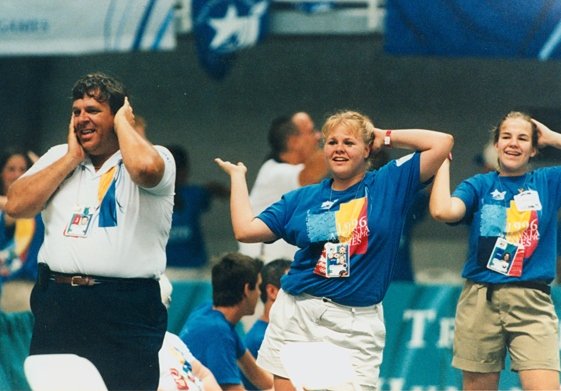 Atlanta 1996 Paralympic Games volunteers doing the macarena.